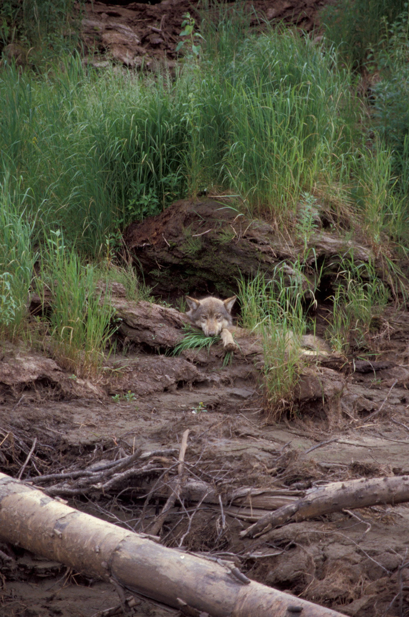 Gray wolf